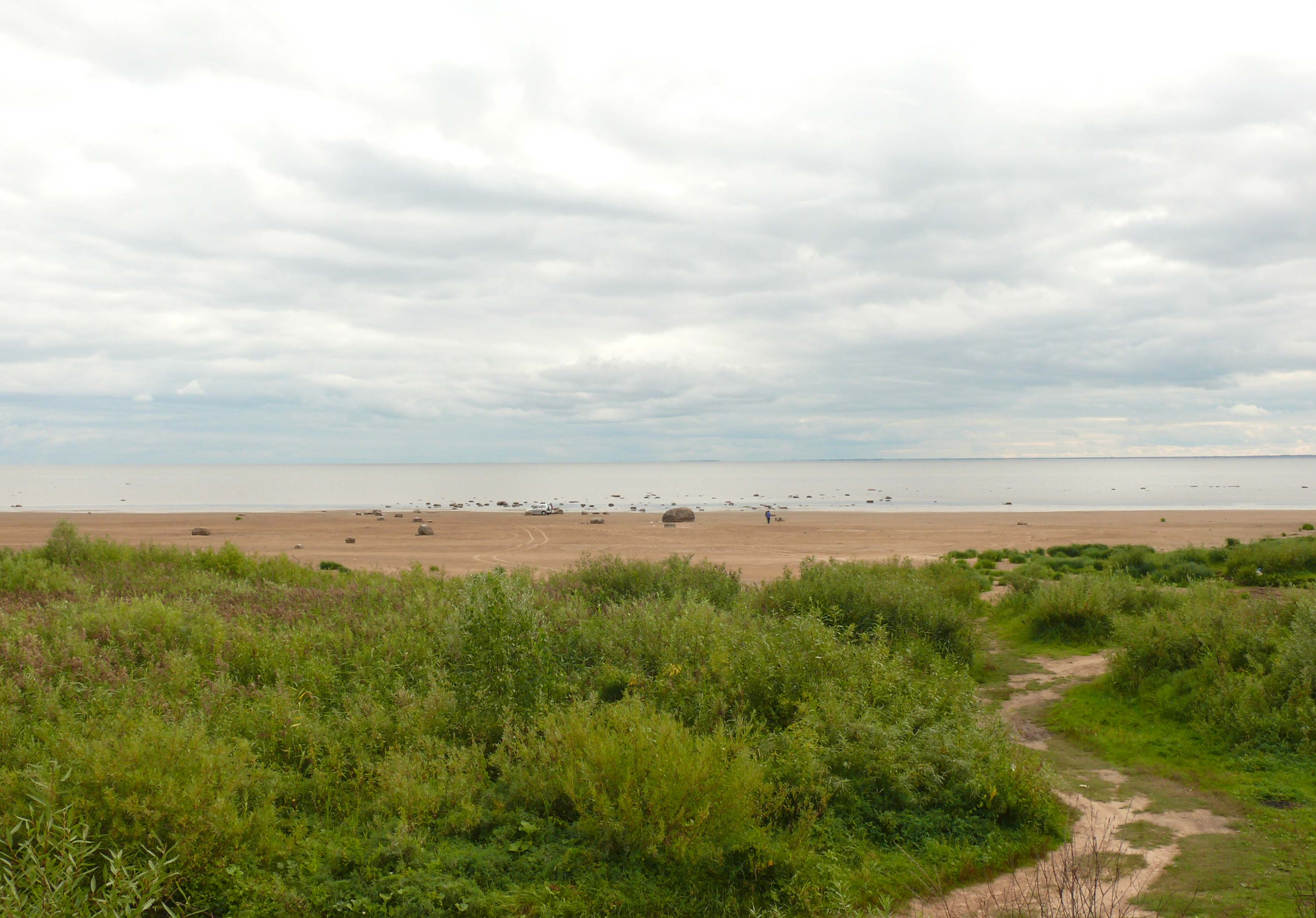 Ilmen sea coast near Erunovo village. Novgorodsky district, Novgorod oblast, Russia